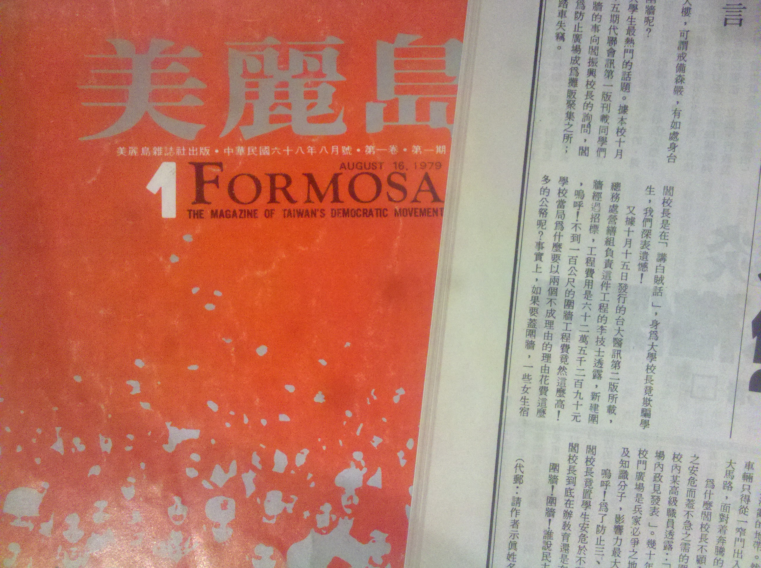 Formosa Magazine No. 1, published in August 16, 1979.